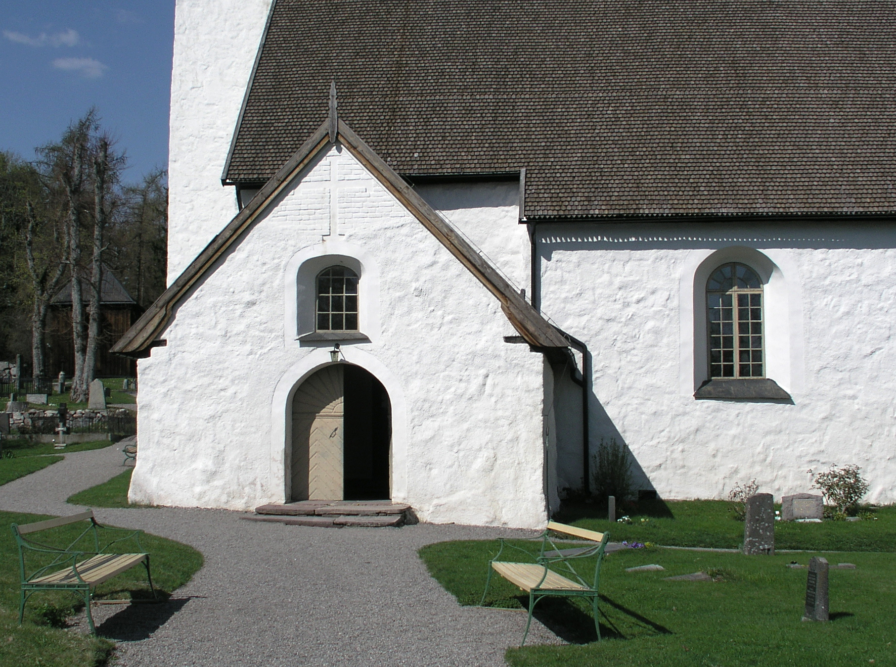 Åkers kyrka/The church of Åker, Diocese of Strängnäs, Sweden.